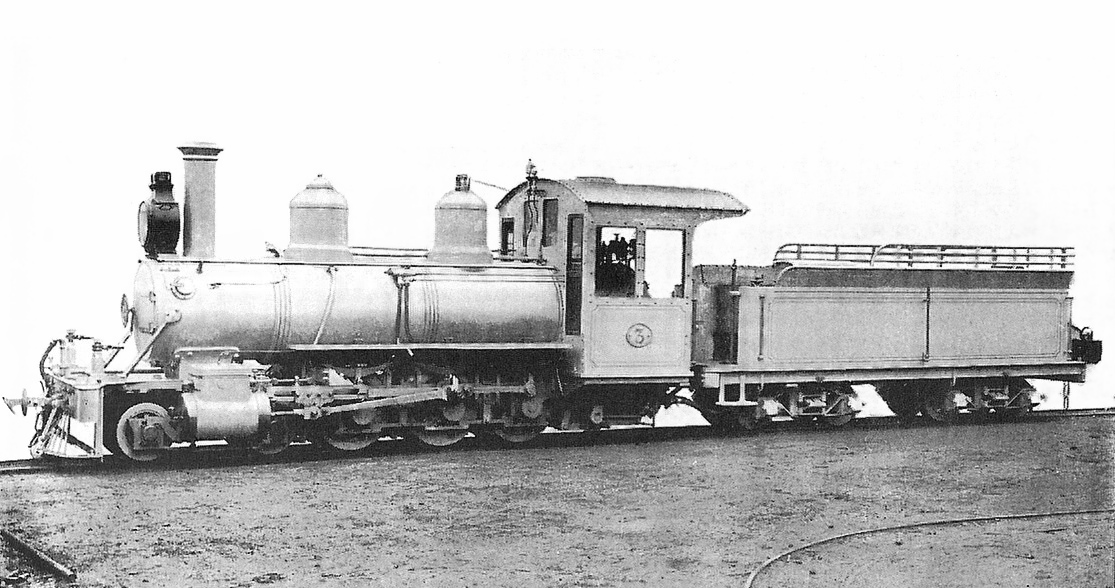 Cape Government Railways "Type B" (No. NG 33–38, later SAR No. NG 27–32). Used on the Avontuur Railway.